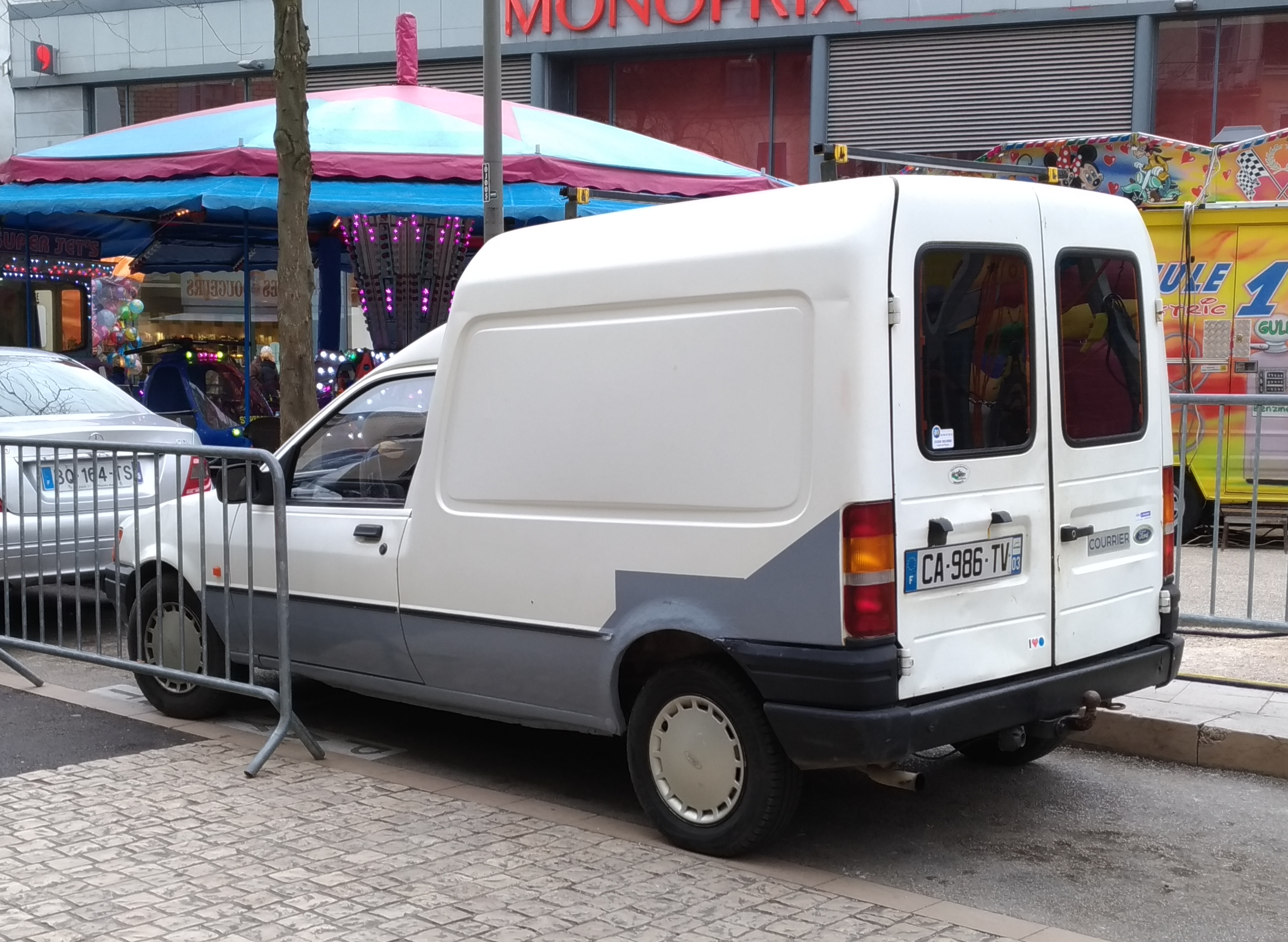 1993 Ford Courier (1.8 D 60 hp) at Chalon sur Saône